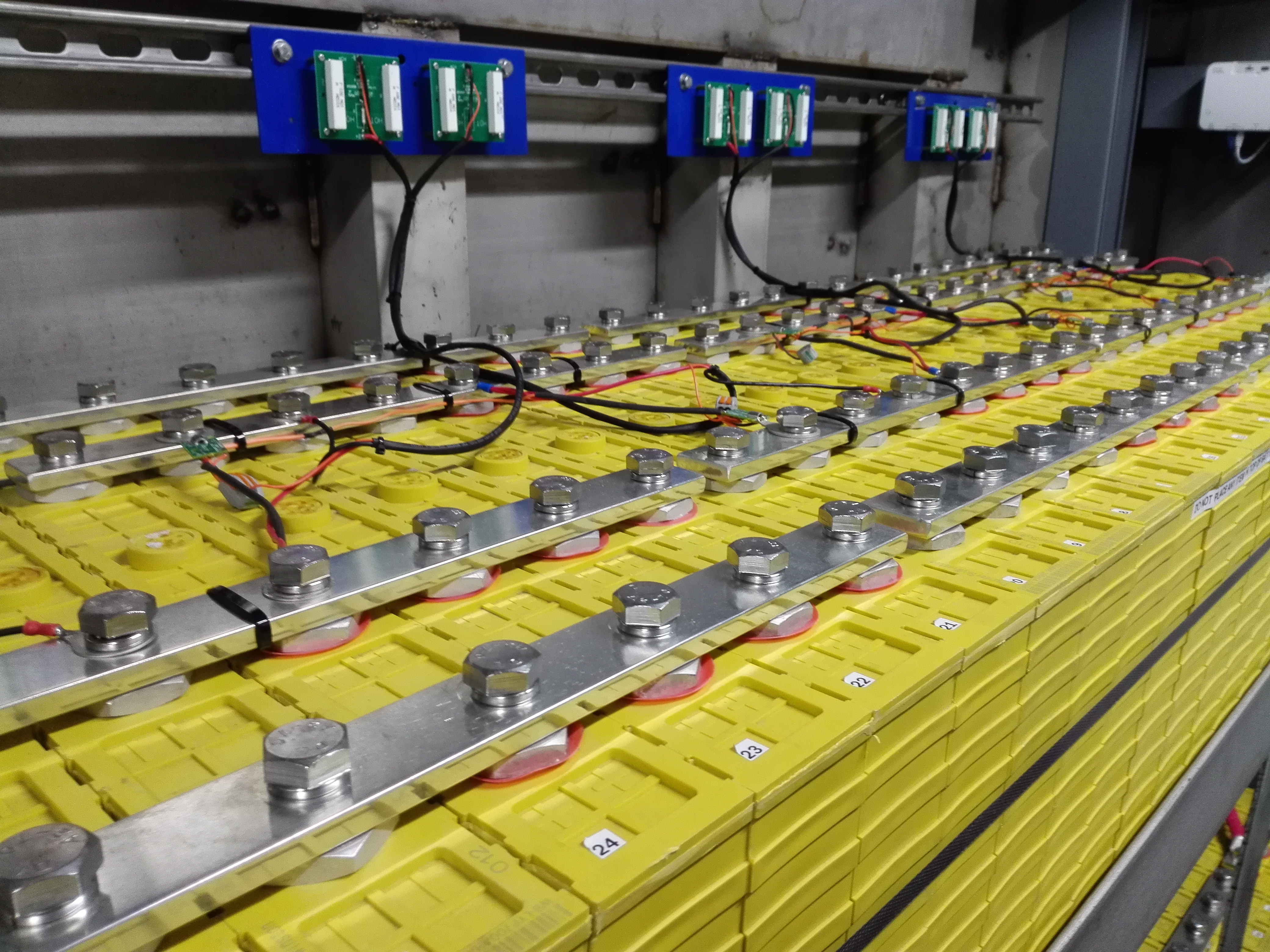 Multiple Lithium Iron Phosphate cells are wired in series and parallel to create a 2800Ah 52V battery. Total battery capacity is 145,600 Watt hours or 145.6 kWh. Note the large solid tinned copper busbar connecting the cells together, this busbar is rated for 700 Amps DC to accommodate the high currents seen in a 48 Volt DC system.